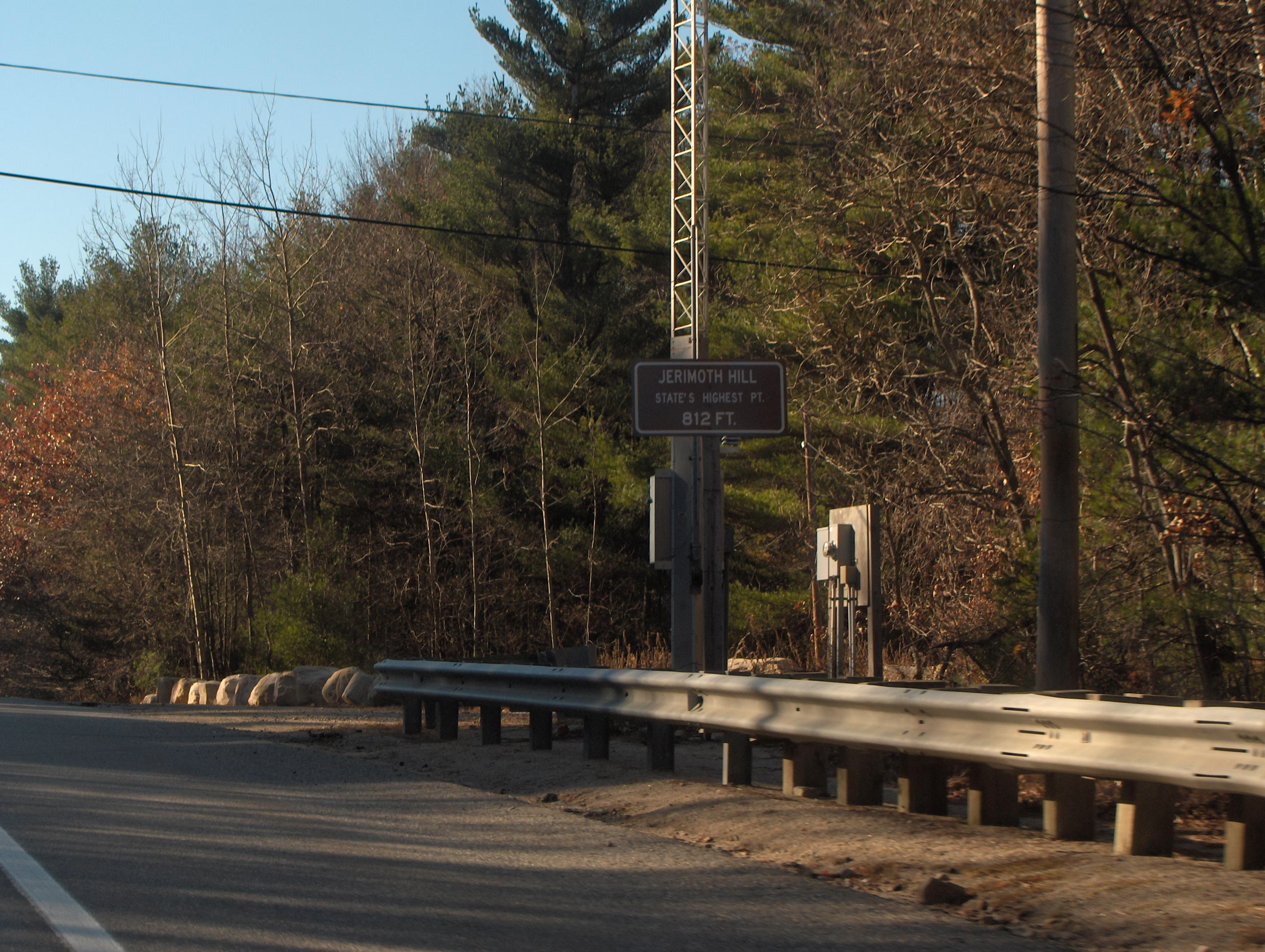 Picture taken by me, Karen L. Houle, and I release it to the public domain.